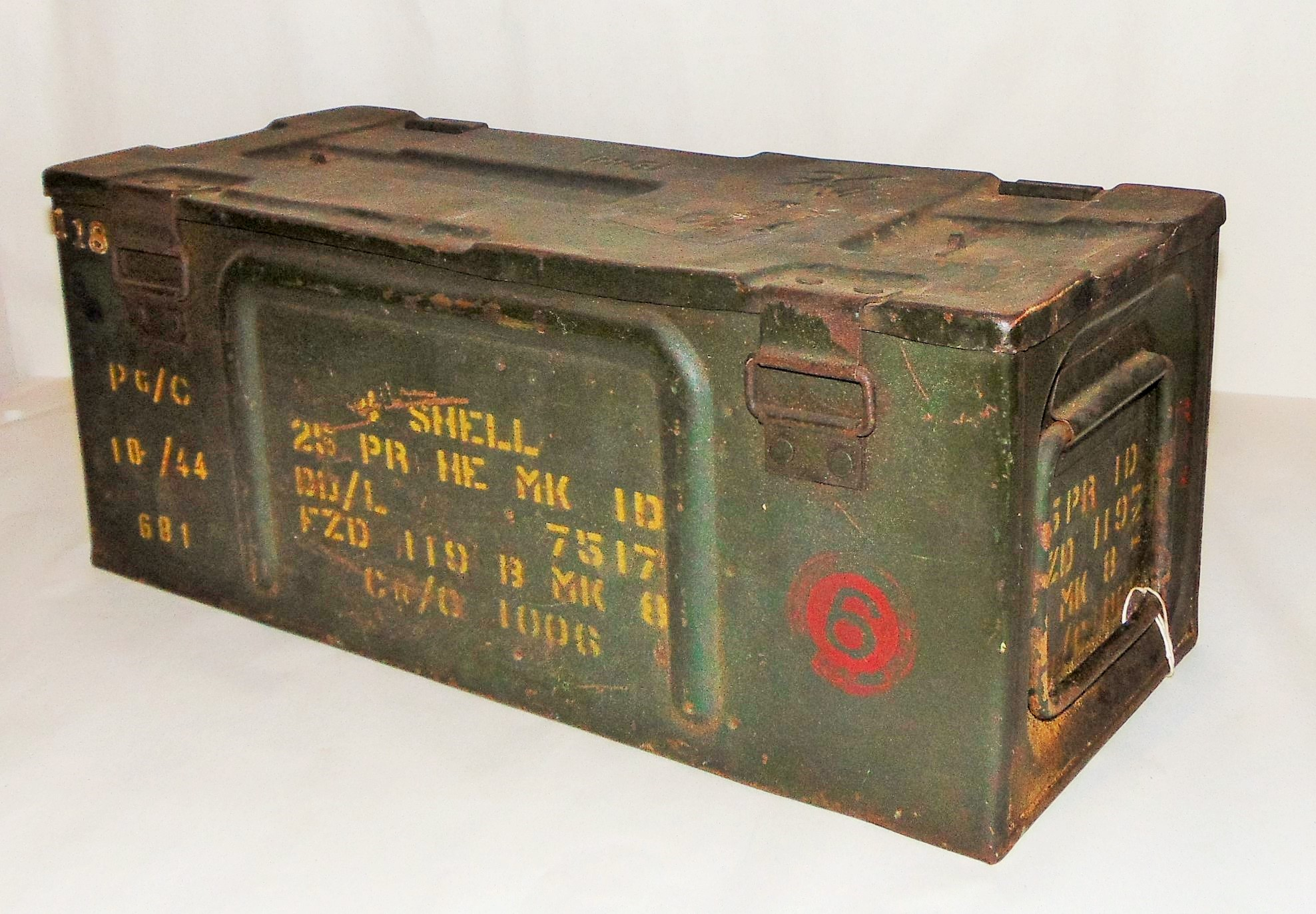 Ammunition box 25 Pounder, 4 shells Text reads: '4 shell 25 PR HE MK ID DD/L 7517 FZD 119 B MI 8 Cr/C 1006' Found by civilians in the Netherlands 1944-1945 Photographed in the collection of the National Liberation Museum 1944-1945, the Netherlands, archive number 2.1.357v